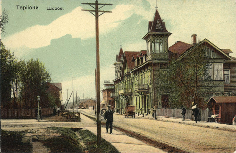 Zelenogorsk (Russia)